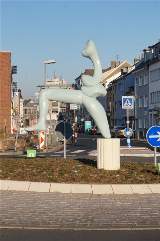 Sculpture 'Tor für Brühl' by Bettina Meyer at the 'Südkreisel' in Brühl